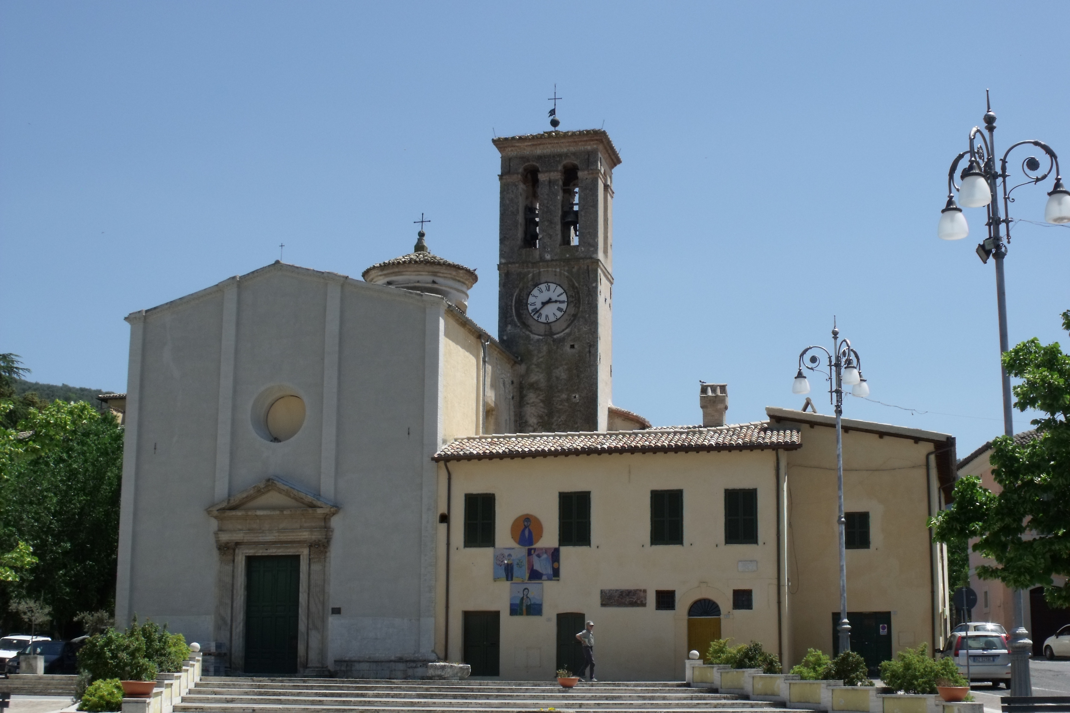 Church of the Madonna della Bianca in La Bianca, Campello sul Clitunno, Province of Perugia, Umbria, Italy